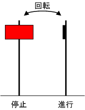 illustration of square board signal used in early day of railway